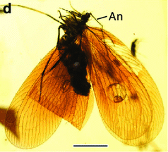 Cretanallachiinae from late Cretaceous Burmese amber. d Cretanallachius magnificus, CAU-BA-XF-18003, female. An antennae, Eye compound eye, Ep eyespot, Ga galea, Lbp labial palp, Lg ligula, Mxp maxillary palp. Scale bar, 2 mm